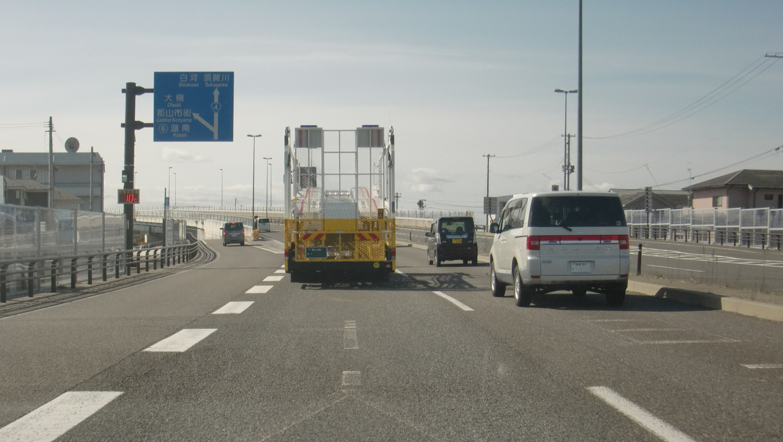 National Route 4 Asakano Bypass Koriyama city